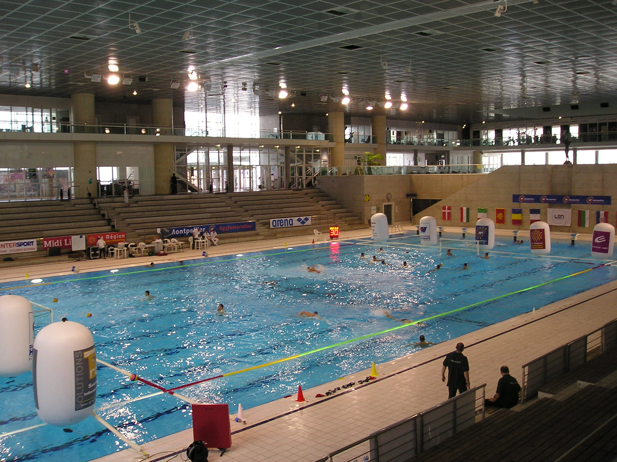 Montpellier, LEN Trophy first round, Bucharest vs. Budapest. General view as the teams are training: shoots around the goal and transversal swim (the pool is 50 meters long and 25 large).